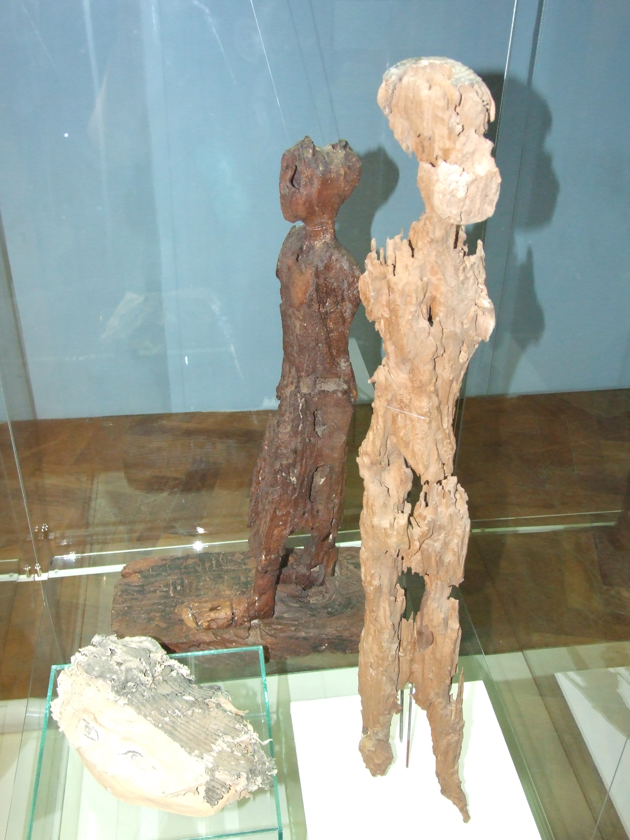 Náprstek Museum, National Museum in Prague